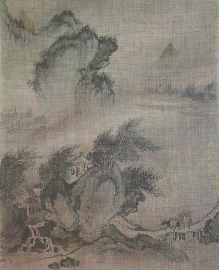 sasipalgyeongdo is a collection of eight paintings that depict the eight seasons of a mountain and water landscape